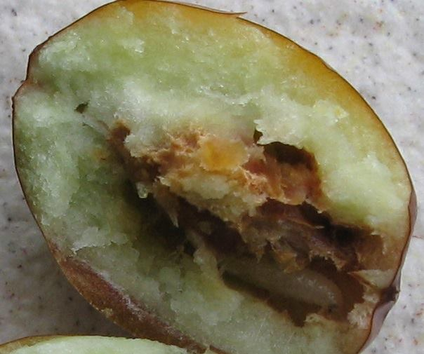 Jujube date attacked by worm